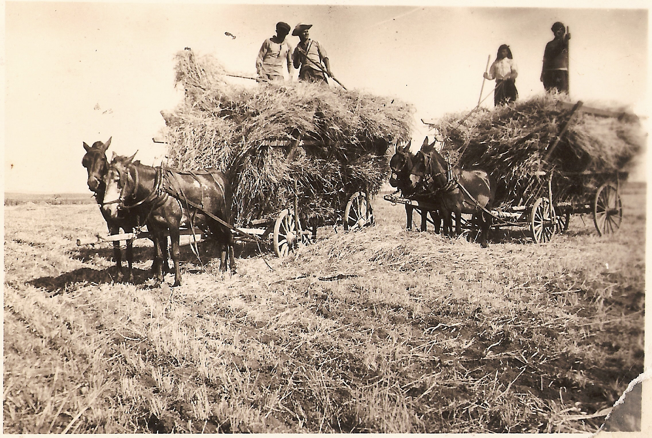 Agriculture in Israel